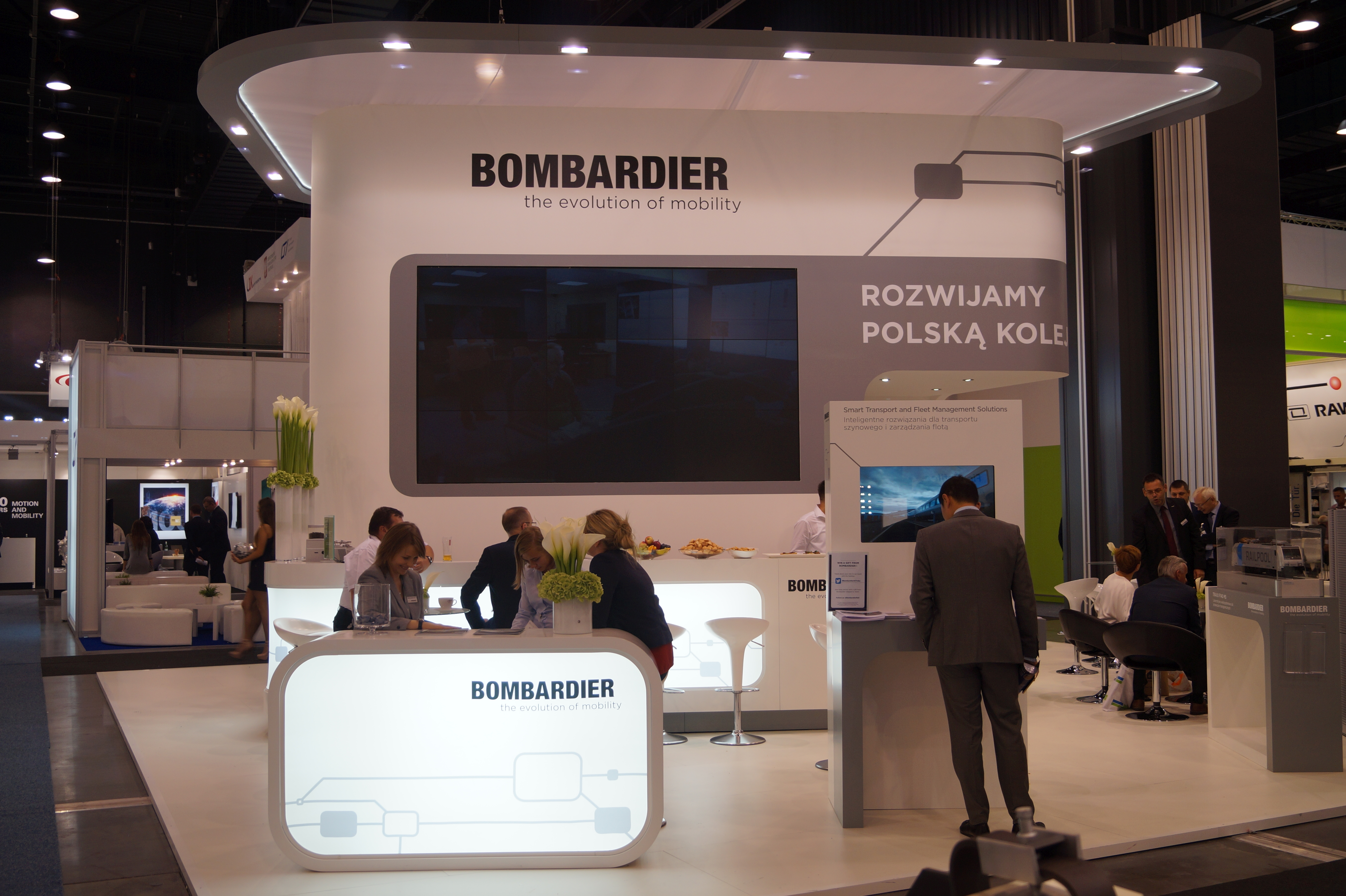 The making of this document was supported by Wikimedia Polska Association, within Wikigrant no. WG 2015-34. English | polski | +/− Stoisko Bombardiera na Targach Trako 2015